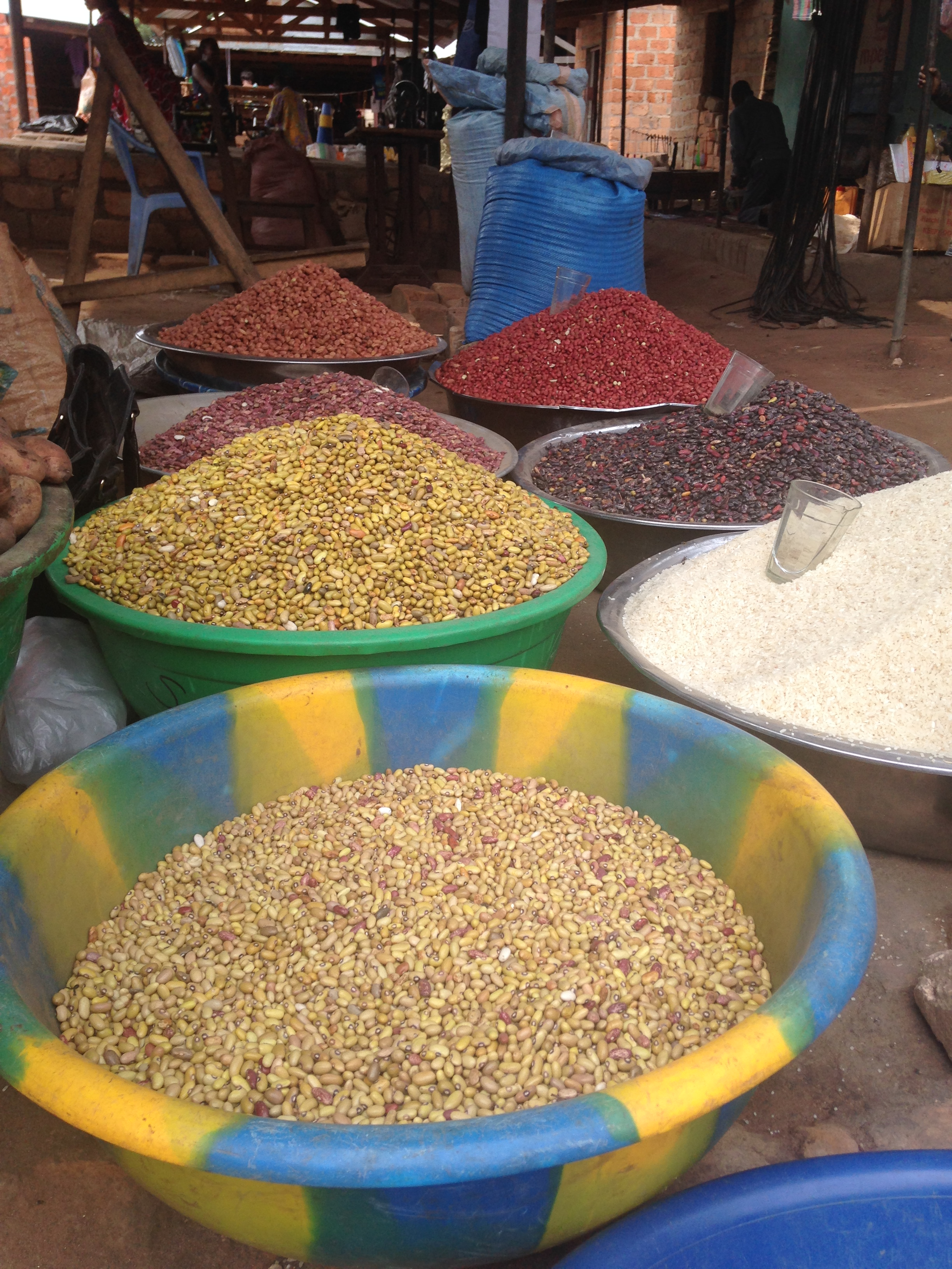 Market in Kamina, DRC This is an image of Cultural Fashion or Adornment from Democratic Republic of the Congo